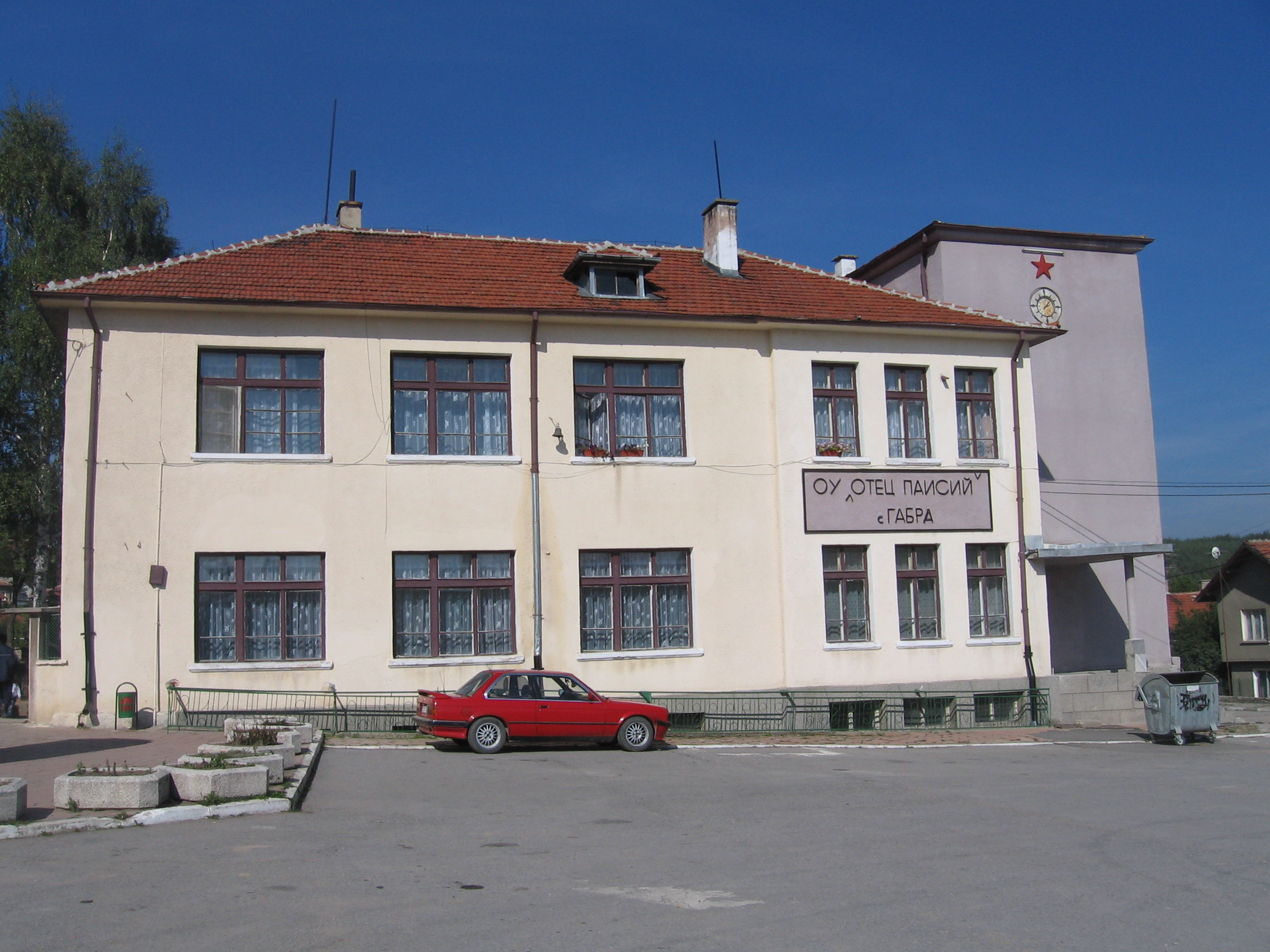 The school in village Gabra, Bulgaria